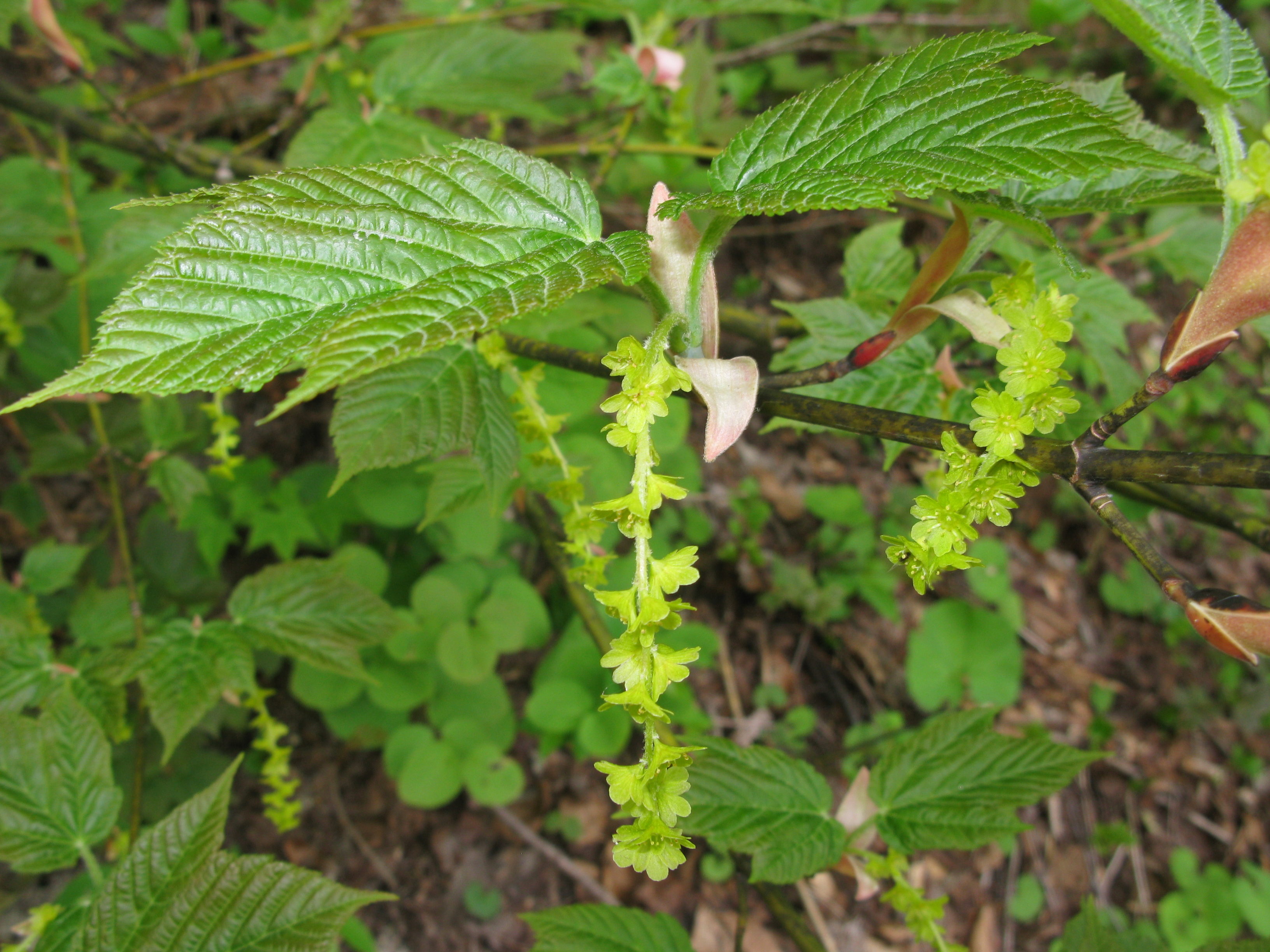 Acer rufinerve, Aizu area, Fukushima pref., Japan